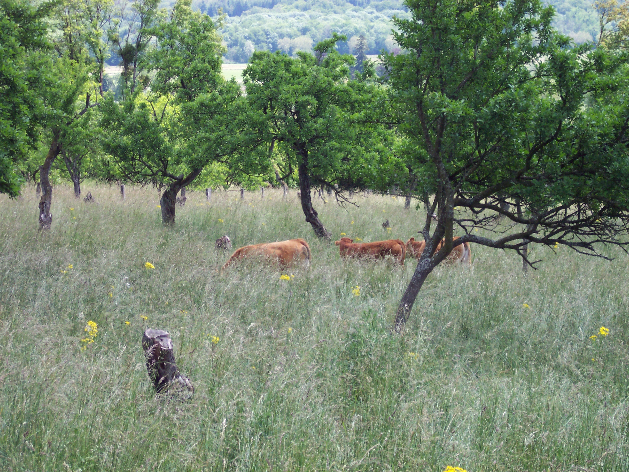 Red cows close to Bainville-aux-Miroirs, Meurthe-et-Moselle.